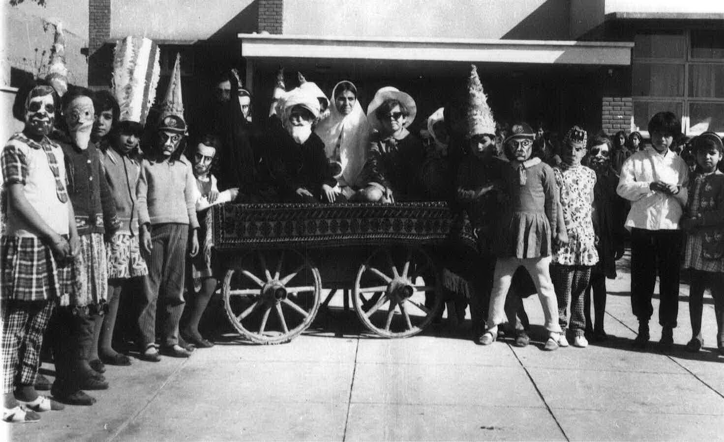 Masquerade ball of Students - Celebration of Art & Culture - Nishapur